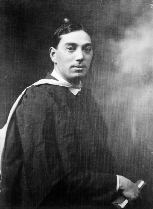 Te Rangi Hīroa (Sir Peter Henry Buck) 1877?-1951, in academic robes, circa 1904.